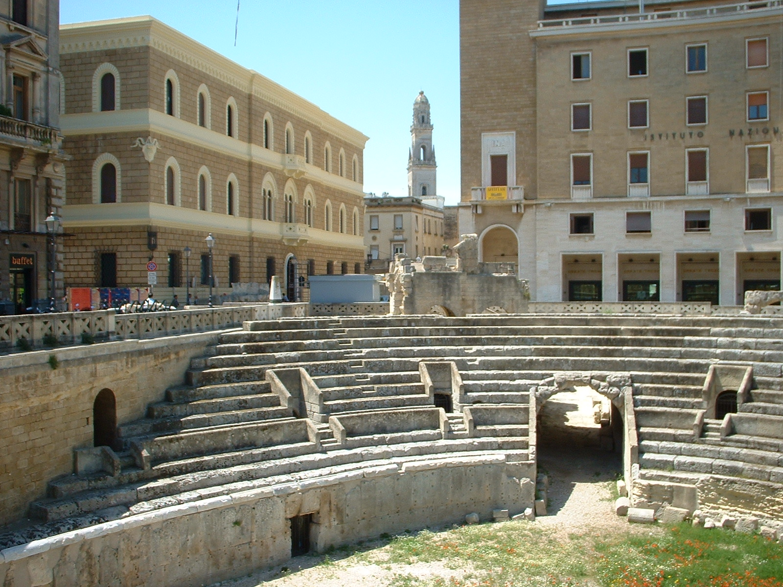 Roman amphitheatre in Lecce. Released under GFDL by its author Roberto Leinardi.